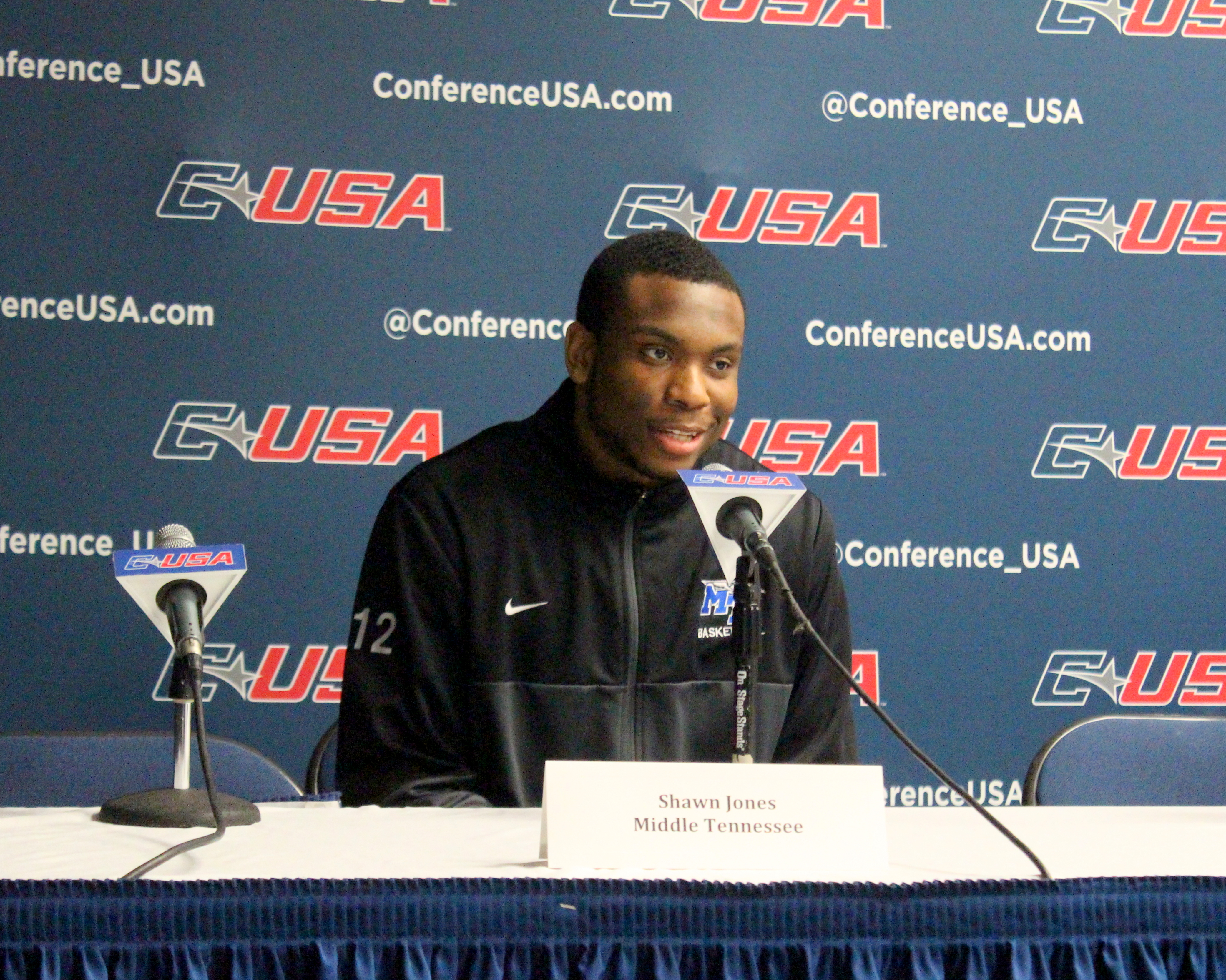 Shawn Jones at the 2014 Conference USA Men's & Women's Basketball Championships